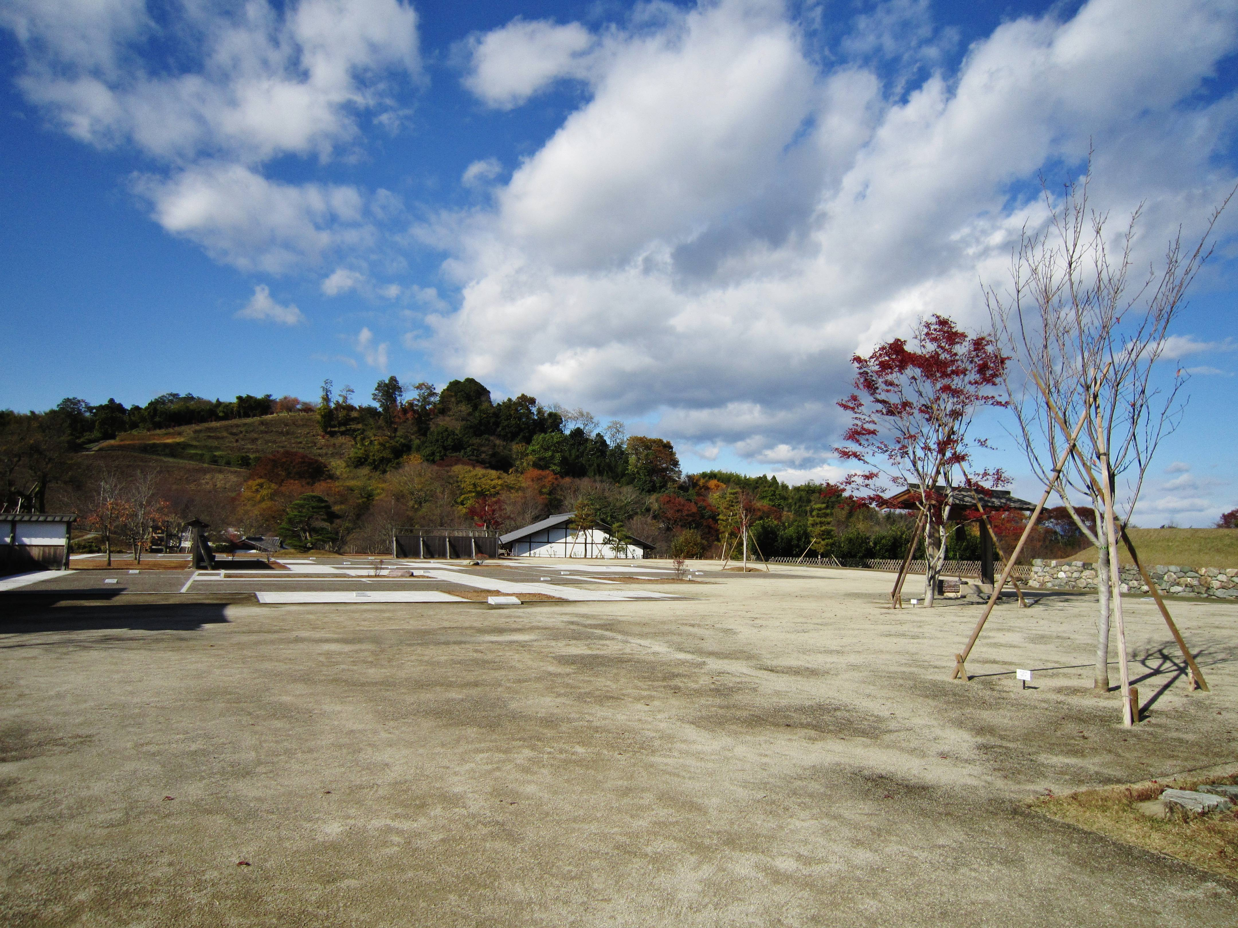 Rakusan-en palace ruins.